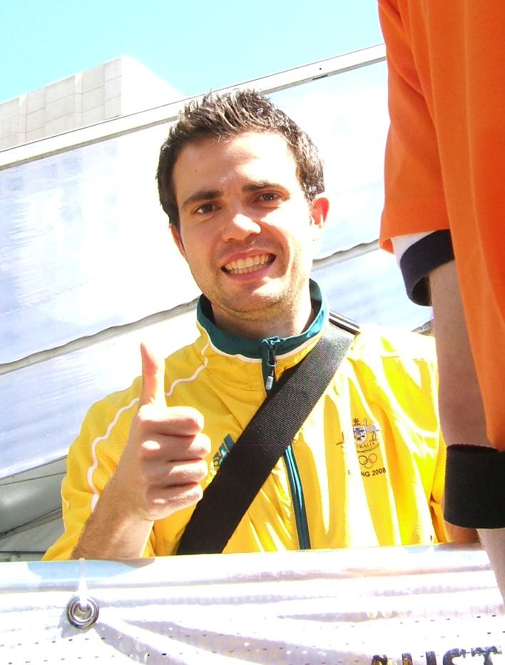 William Henzell at the 2008 Olympic welcome home parade in Adelaide